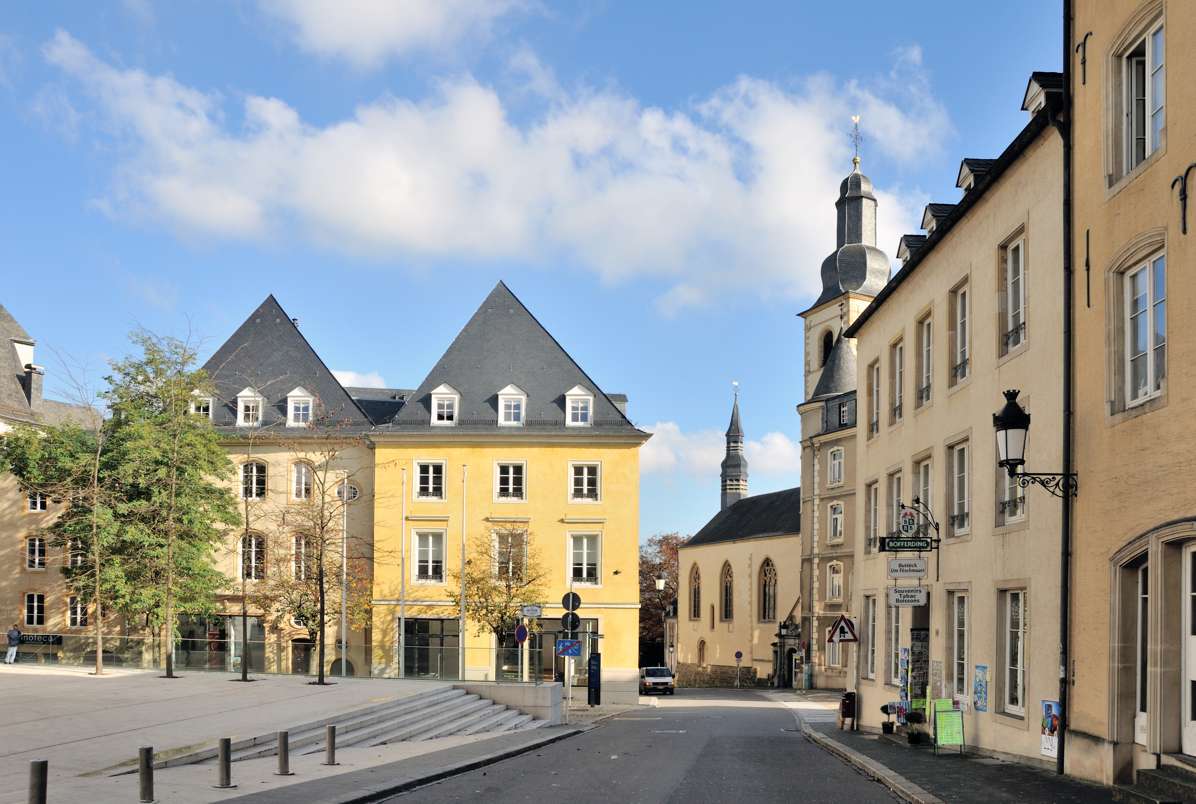 Square Marché-aux-Poissons and rue Sigefroi in Luxembourg City.